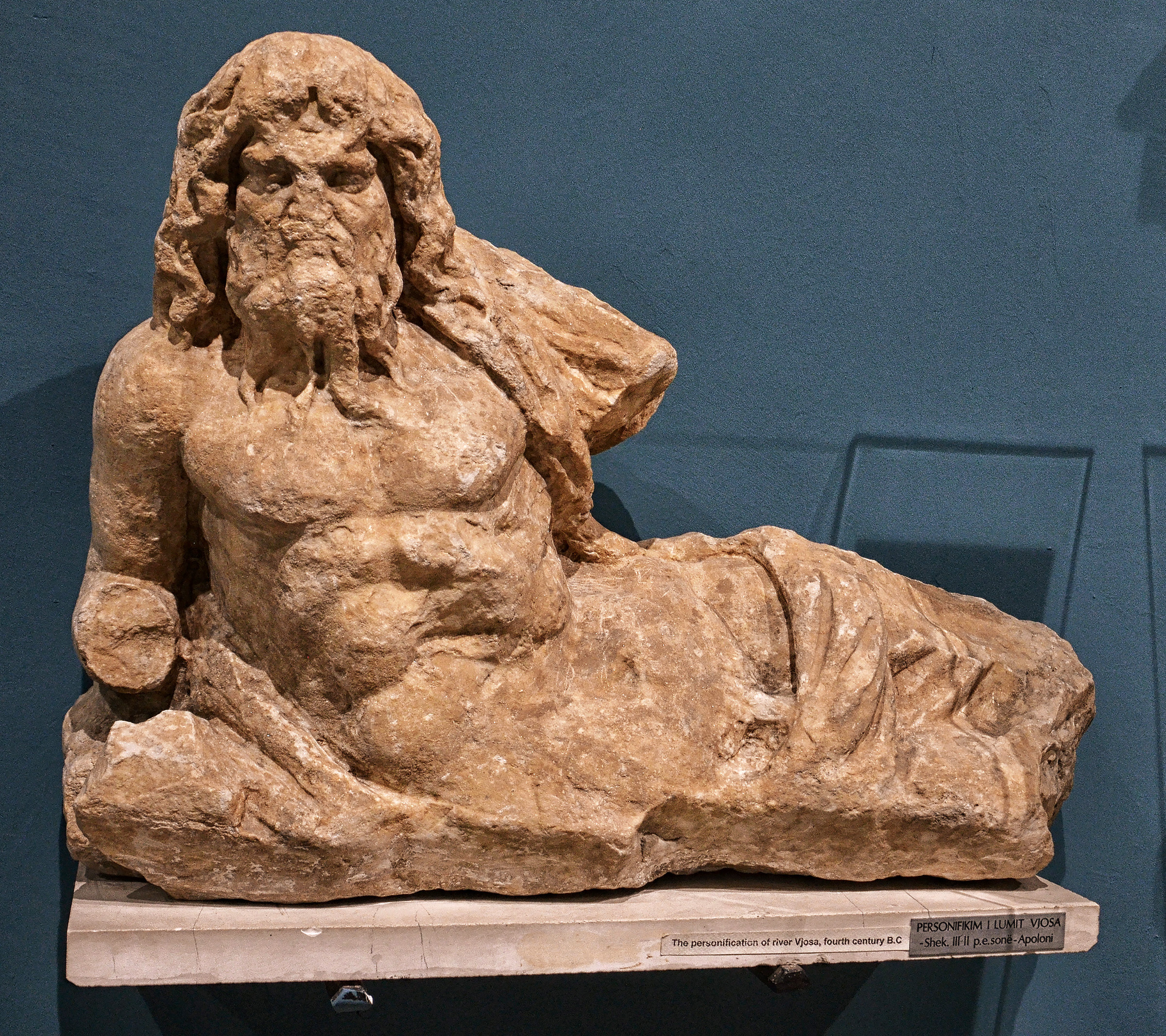 Personification of the Vjosa river from Apollonia, 3rd century BC in the National Museum of History in Tirana, Albania